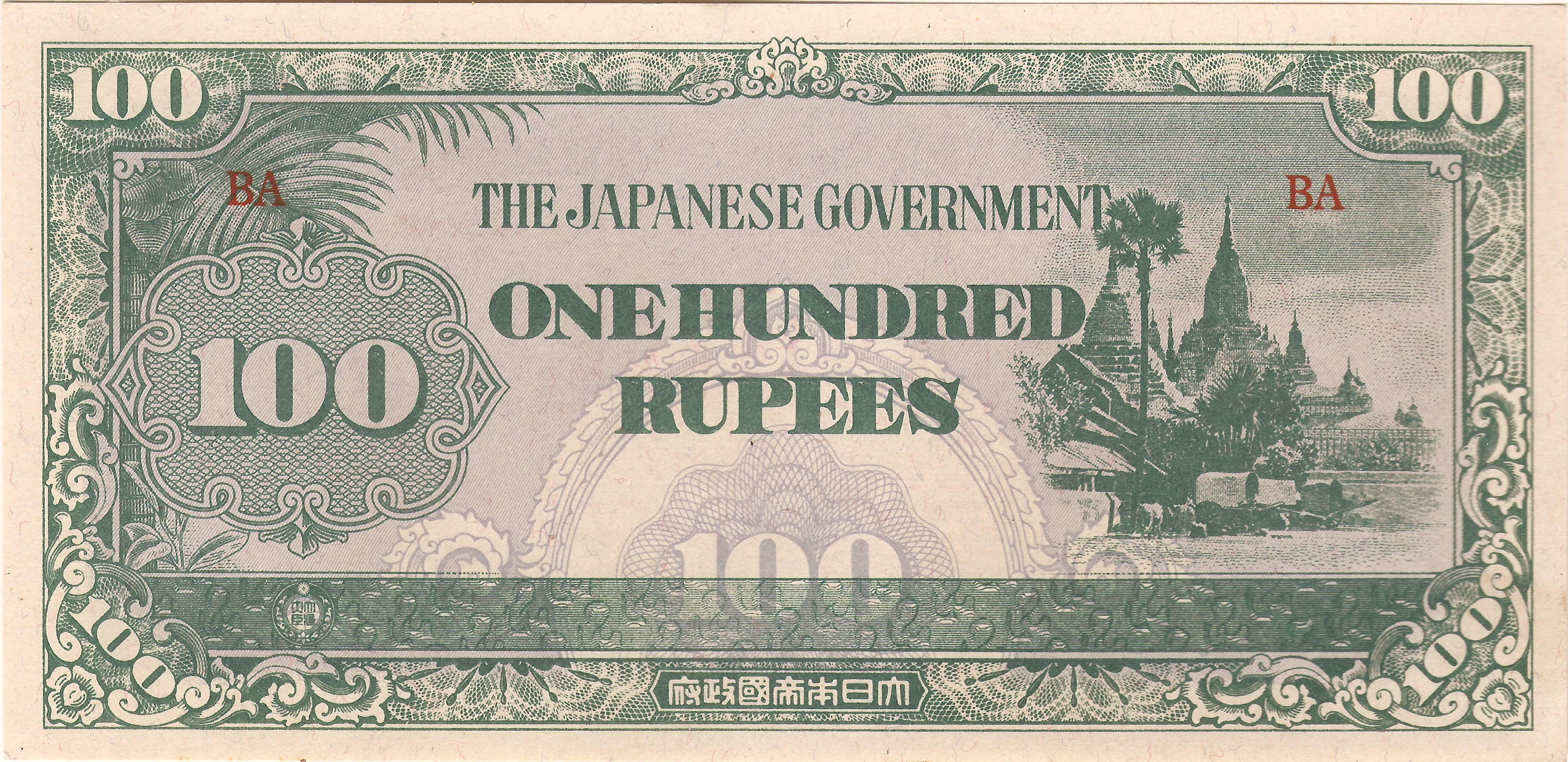 Japanese 100 rupee note; occupation currency during WWII